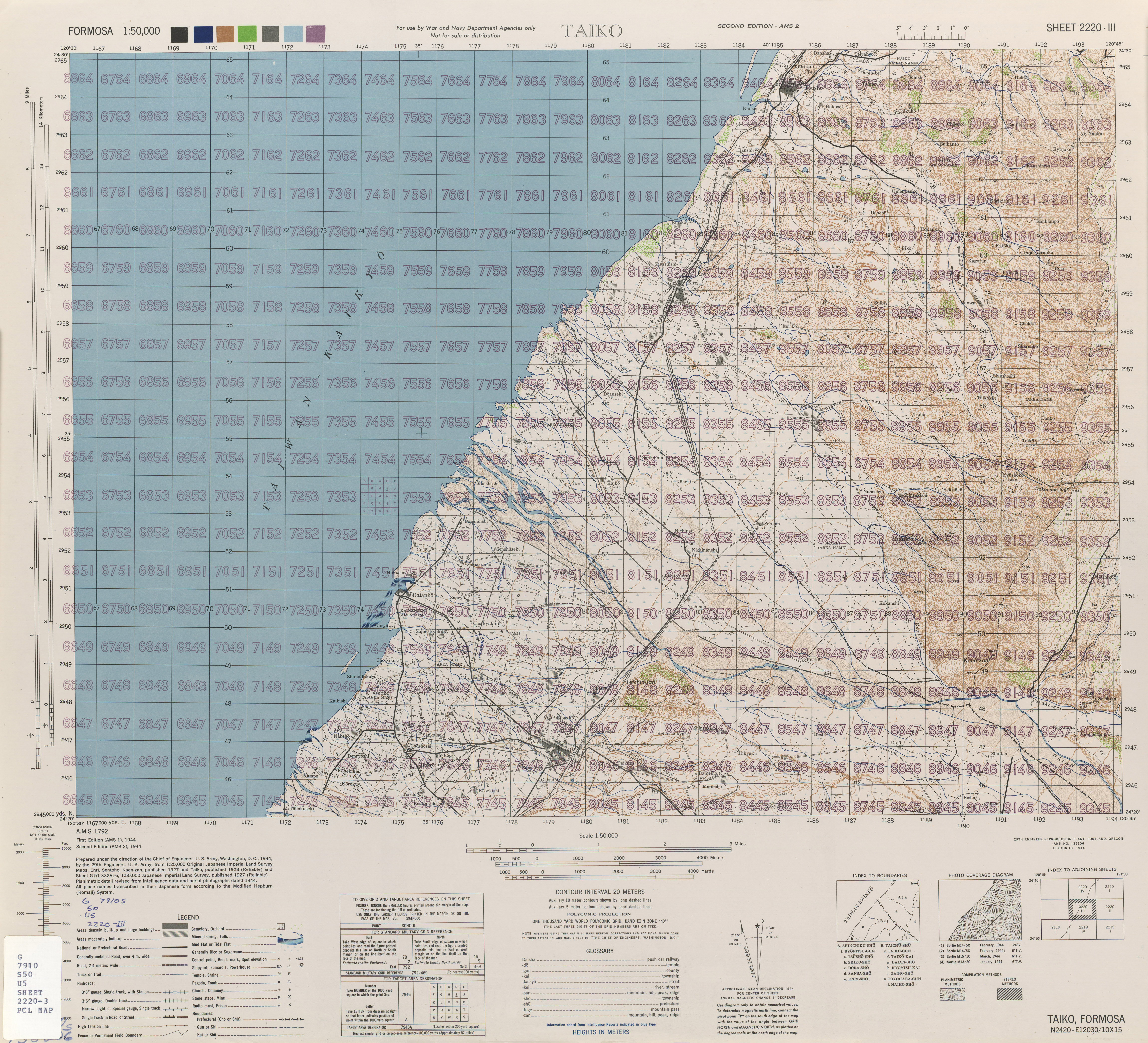 Map from Formosa (Taiwan) 1:50,000 AMS Series L792